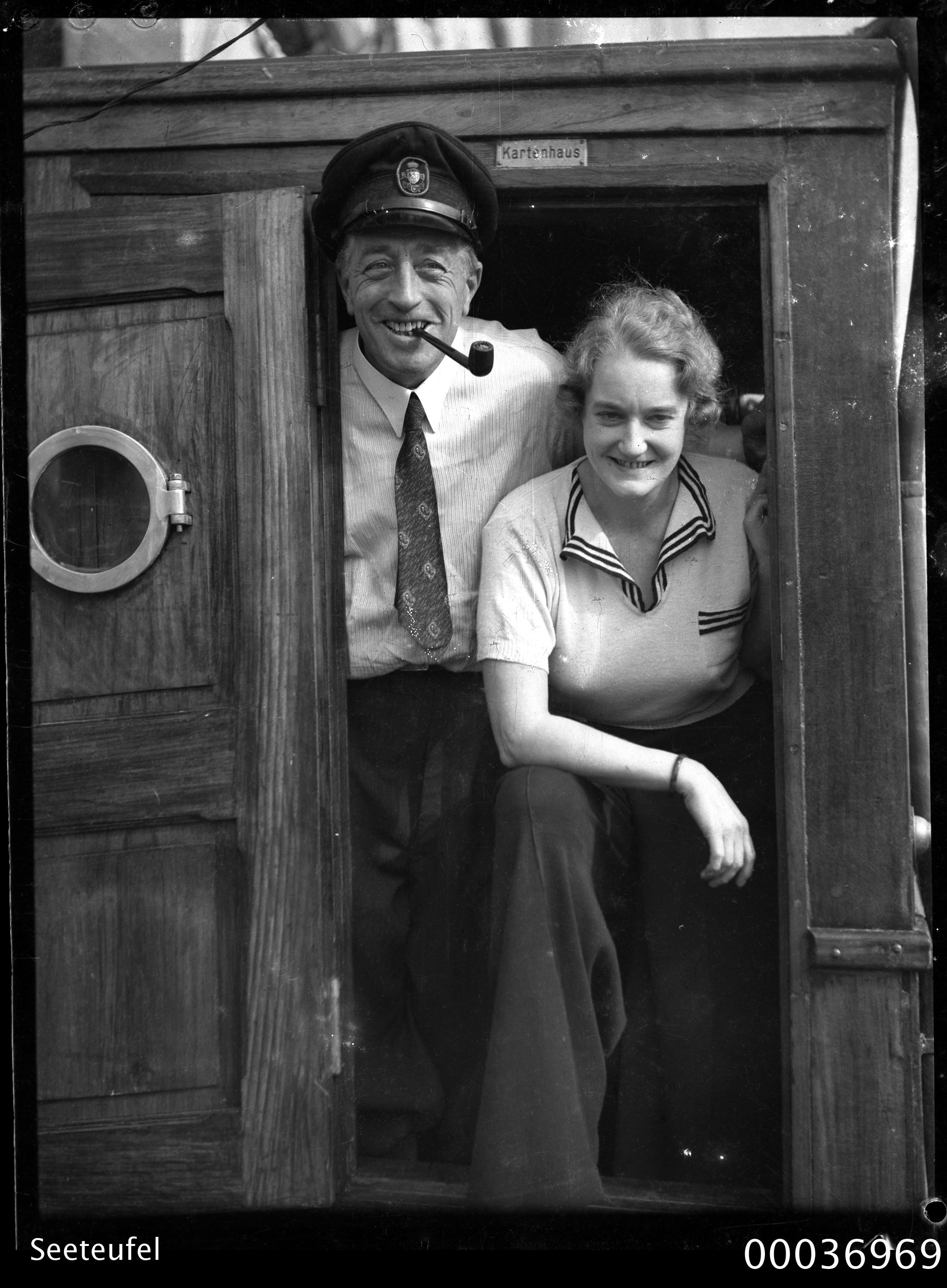 This photograph depicts Count Felix Graf von Luckner with wife Countess Ingeborg von Luckner (née Engeström) on board their two-masted schooner SEETEUFEL. A similar photograph was published in 'The Sydney Morning Herald' on 21 May 1938 on page 12. For more information on Count von Luckner's visit see our blog post 'Espionage and paranoia: The Sea Devil tours Australia'. This photo is part of the Australian National Maritime Museum’s Samuel J. Hood Studio collection. Sam Hood (1872-1953) was a Sydney photographer with a passion for ships. His 60-year career spanned the romantic age of sail and two world wars. The photos in the collection were taken mainly in Sydney and Newcastle during the first half of the 20th century. If reproduced or distributed, this image should be clearly attributed to the collection of the Australian National Maritime Museum; and not be used for any commercial or for-profit purposes without the permission of the museum. For more information see our Flickr Commons Rights Statement. The ANMM undertakes research and accepts public comments that enhance the information we hold about images in our collection. This record has been updated accordingly. Photographer: Samuel J. Hood Studio Collection Object no. 00036969